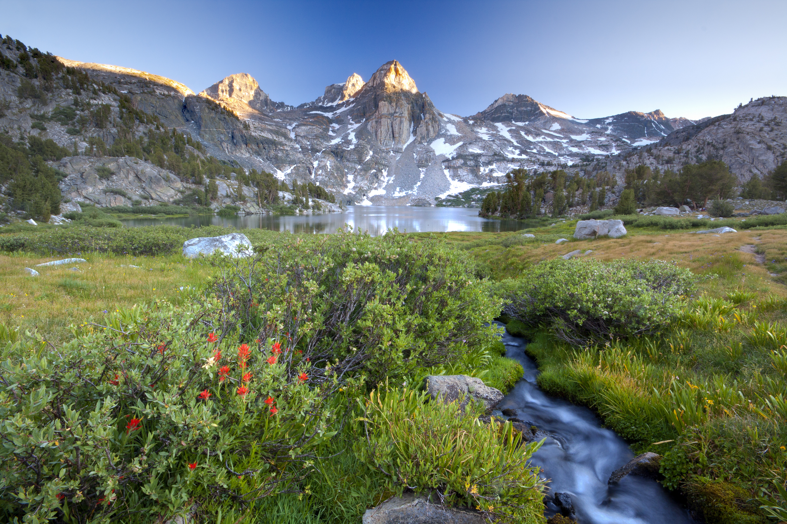 Rae Lakes, Kings Canyon National Park, California.